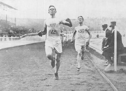 Mel Sheppard winning the 1500 metre final at the 1908 Summer Olympics